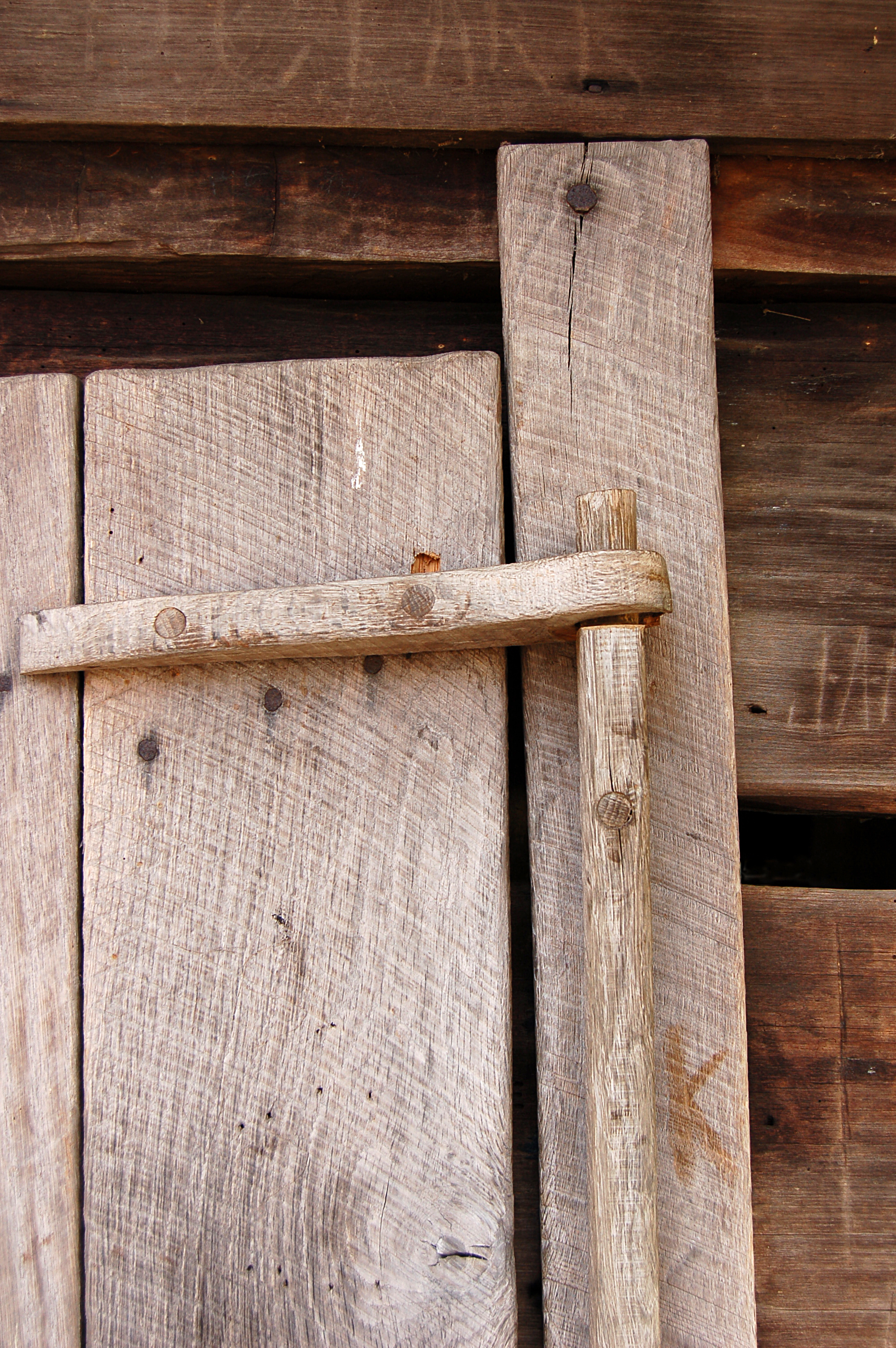 A wooden hinge on a corn crib door at the Mountain Farm Museum, adjacent to the Oconaluftee Visitor Center in the Great Smoky Mountains National Park, North Carolina.